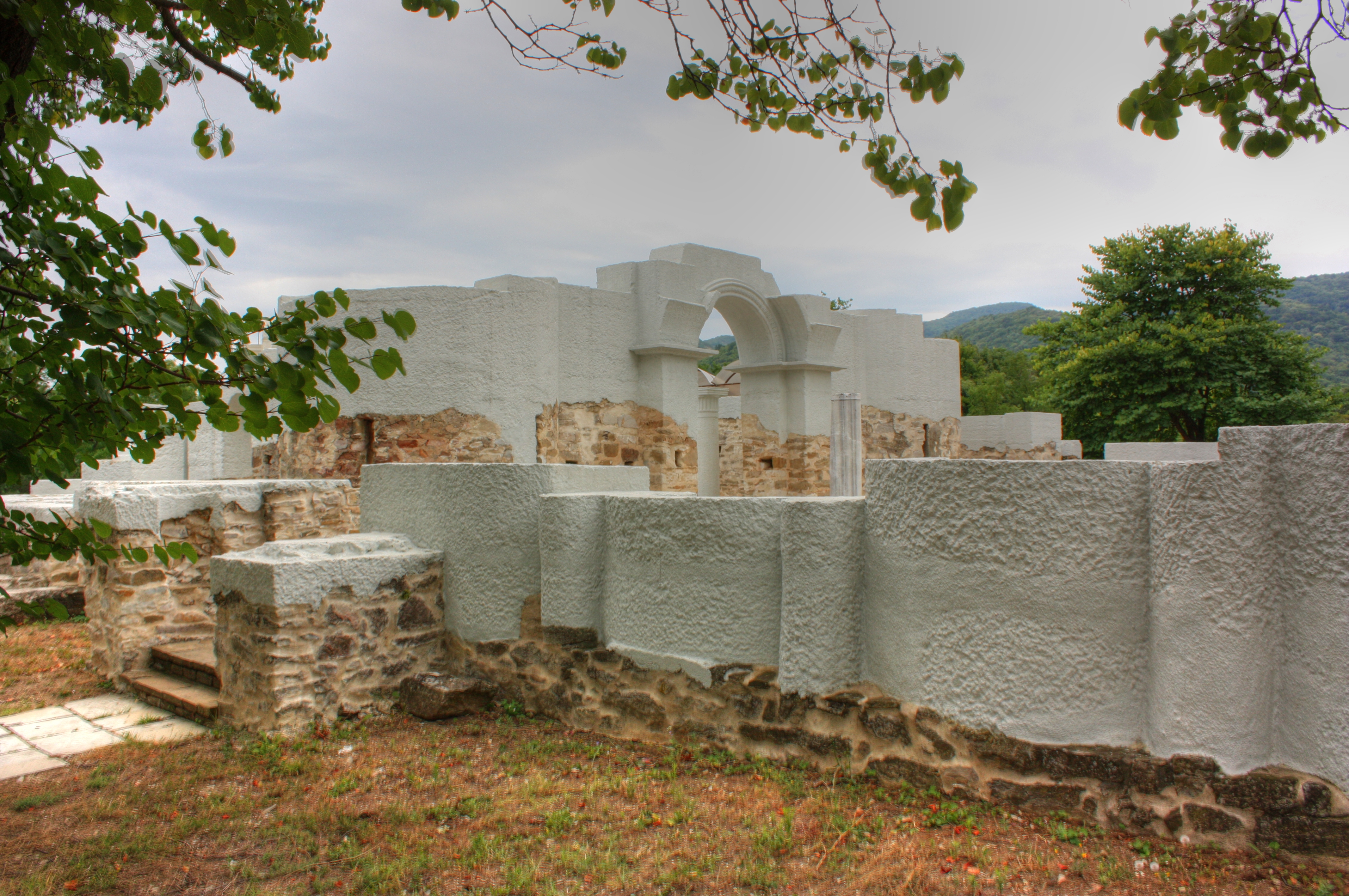 The Golden Church at the ancient Bulgarian capital Preslav (partial reconstruction)... Preslav, the capital of the First Bulgarian Empire...